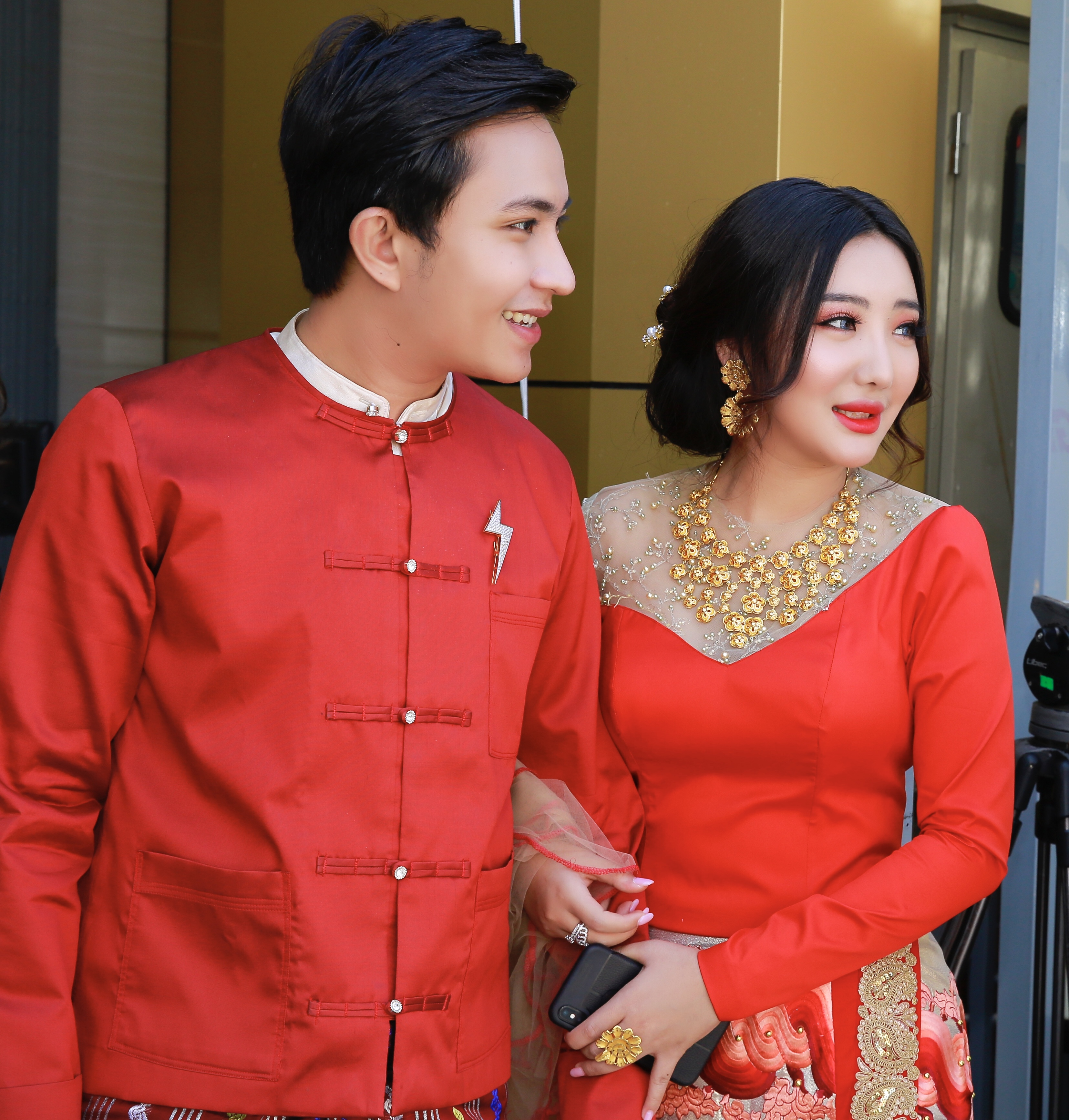 Thu Riya and Hsu Eaint San for shop open